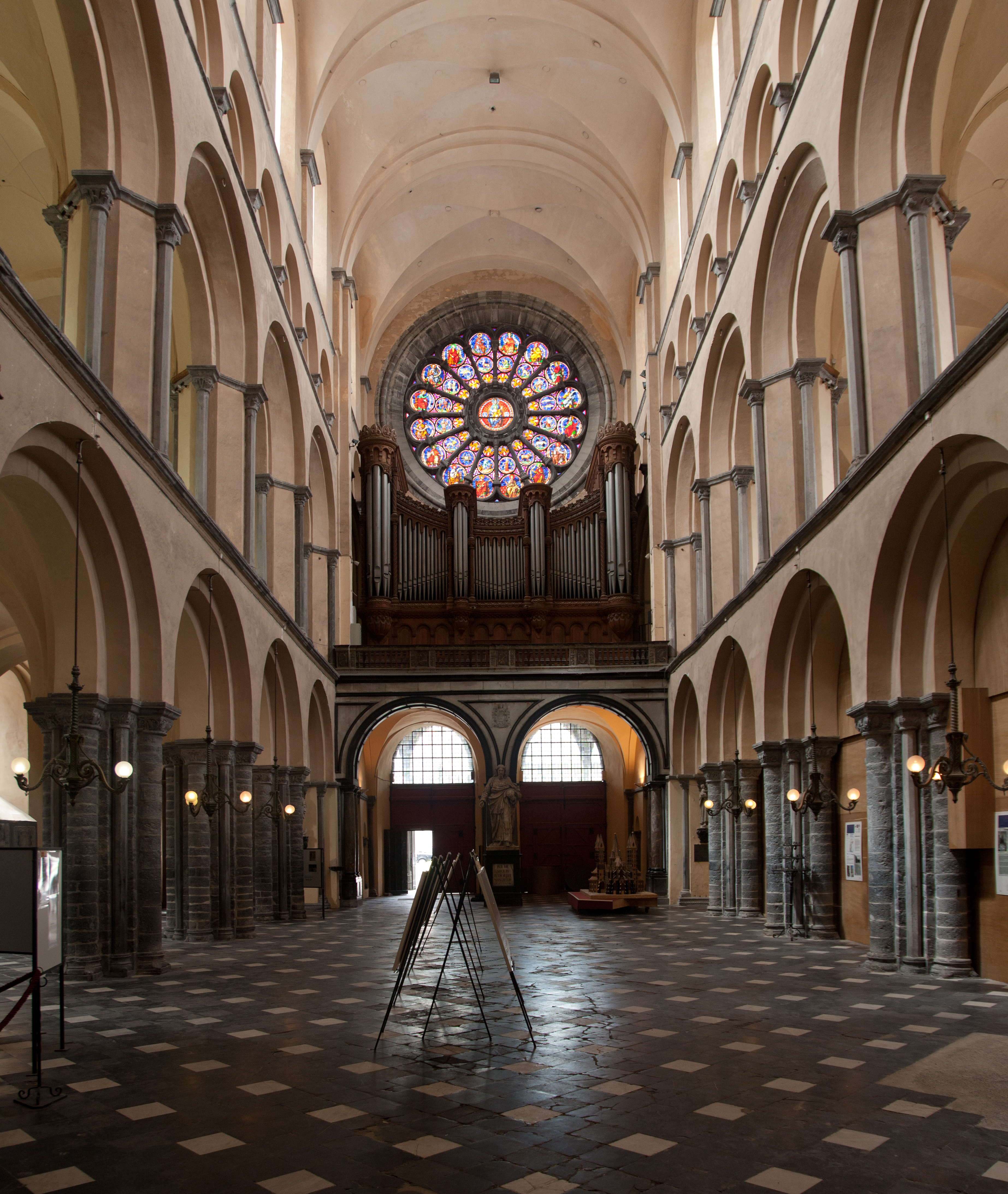 Interior of the Romanesque nave of the cathedral of Tournai